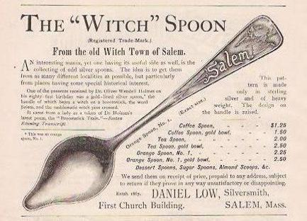 Advertisement from 1891 for the first "Witch Spoon"